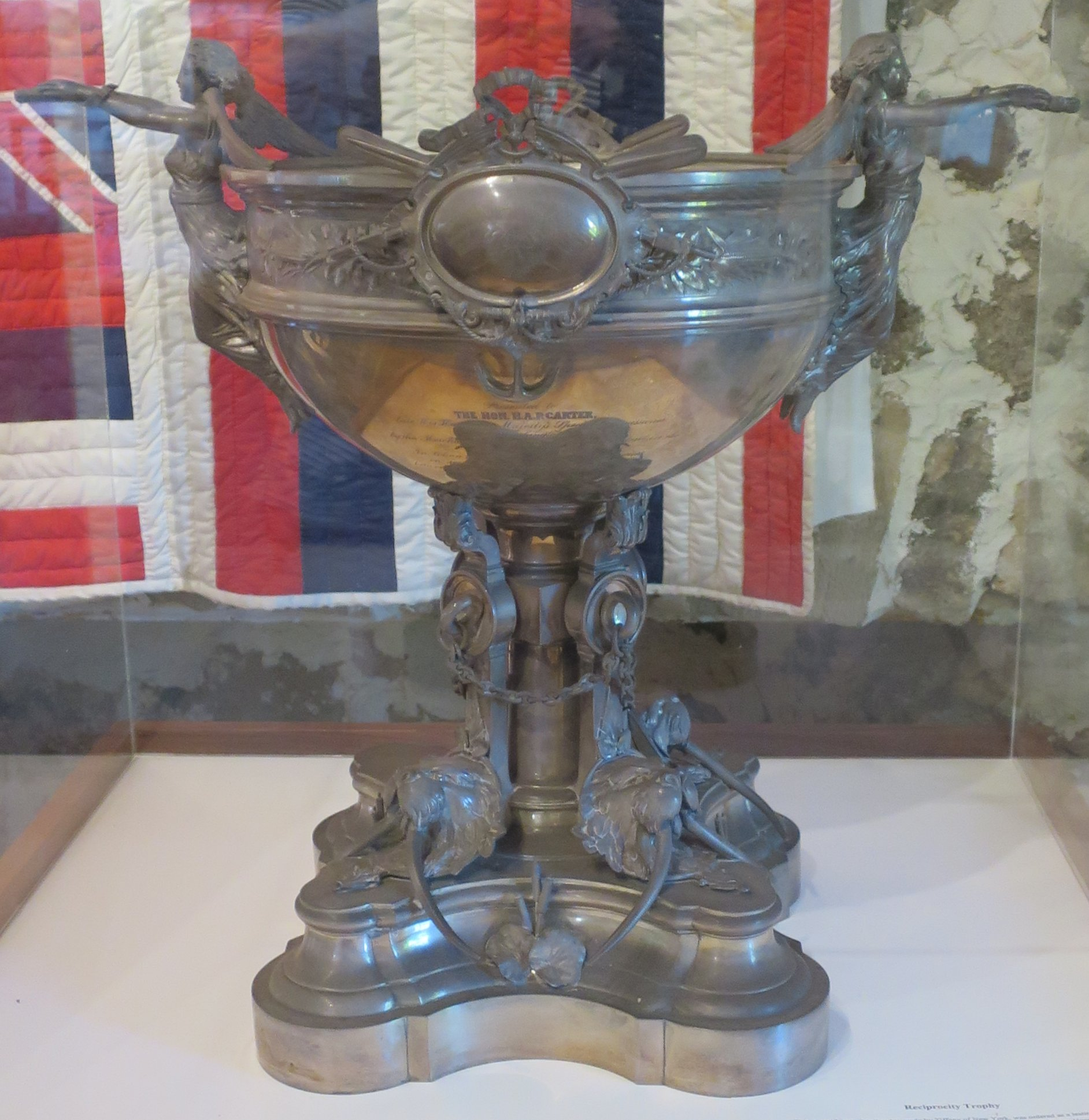 Reciprocity Trophy, Tiffany & Co., c 1875, Bailey House Museum, presented to Henry Alpheus Pierce Carter for negociating the Reciprocity Treaty of 1875